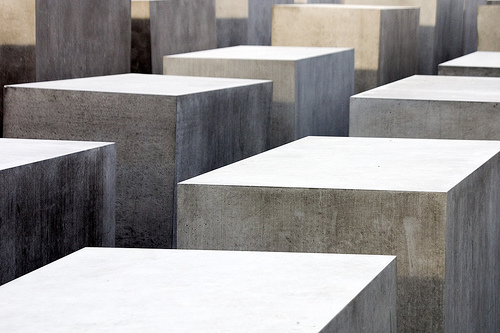 The Memorial to the murdered Jews of Europe is located near the Brandenburg Gate. It was built between 2003 and 2005 according to a design by architect Peter Eisenman. The grid pattern, consisting of 2711 concrete stelae.